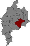 Location of la Vansa i Fórnols in Alt Urgell